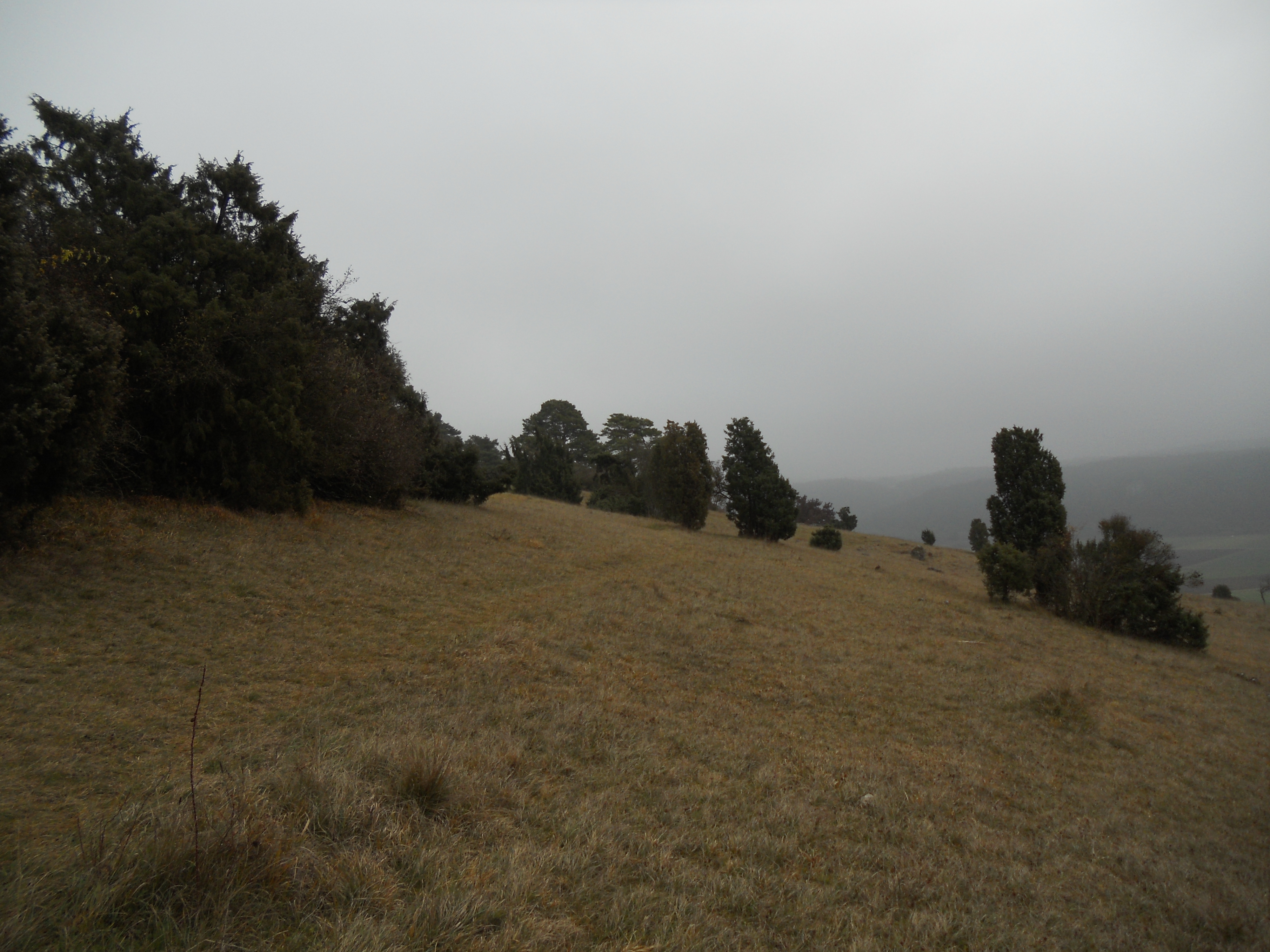 Iuniperi myrice in Gungolding